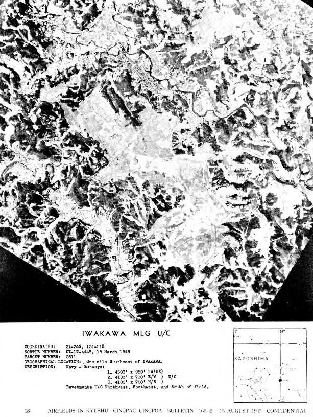 Iwakawa airfield reconnaissance photo 18 March 1945